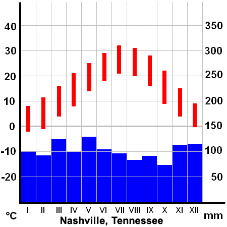 Climate diagram of Nashville, Tennessee Max. and Min. temperature and total precipitations per month Created by Kaldari, January 2006